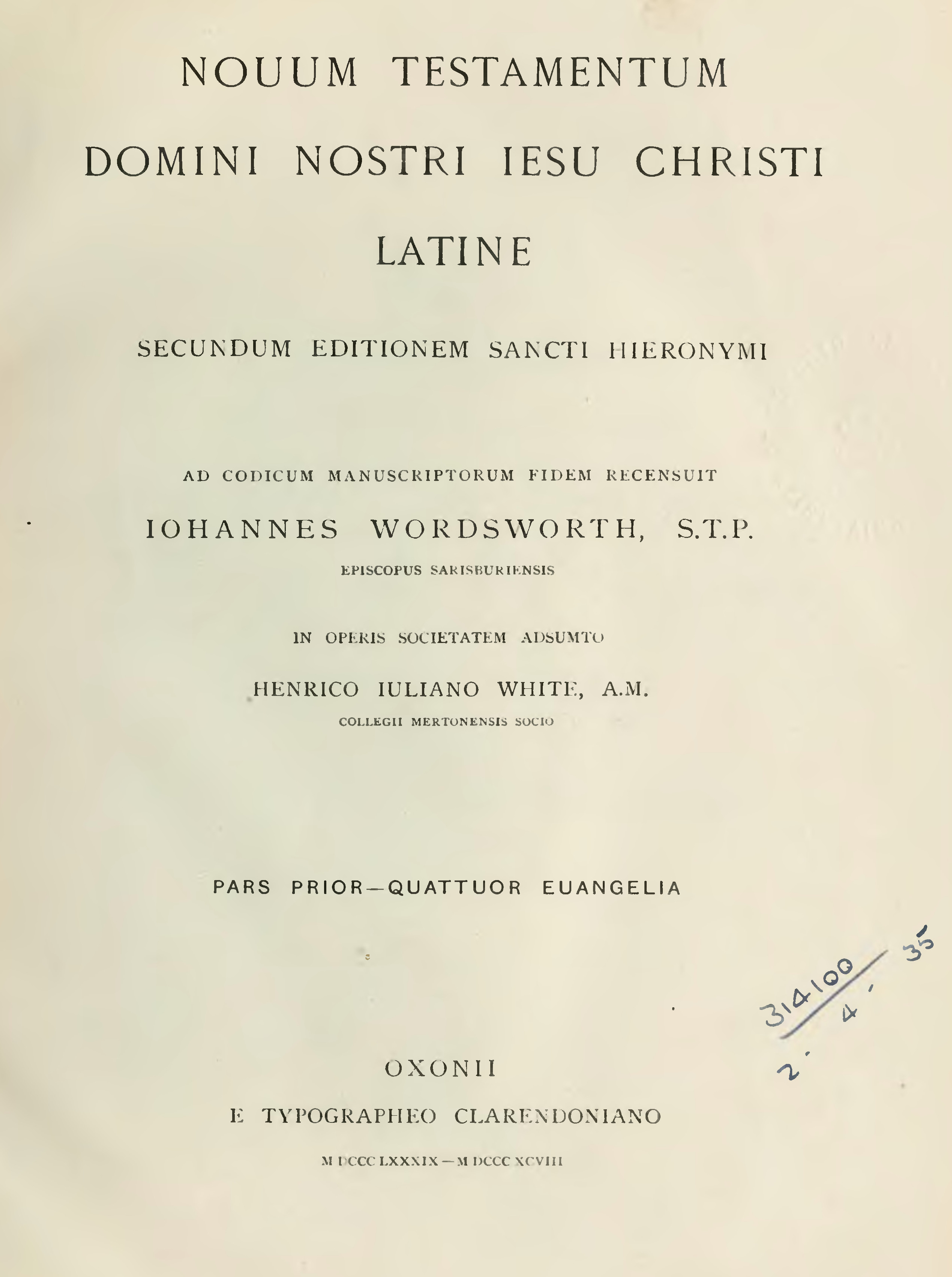 V. 2 pt. 5-7, V. 3 pt. 2-3 ed. by Hedley Frederick Davis Sparks and others